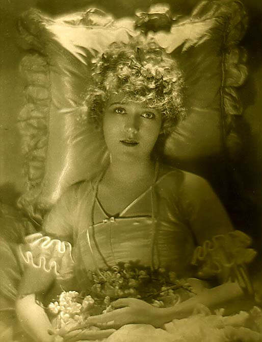 Adolf de Meyer Mary.Pickford